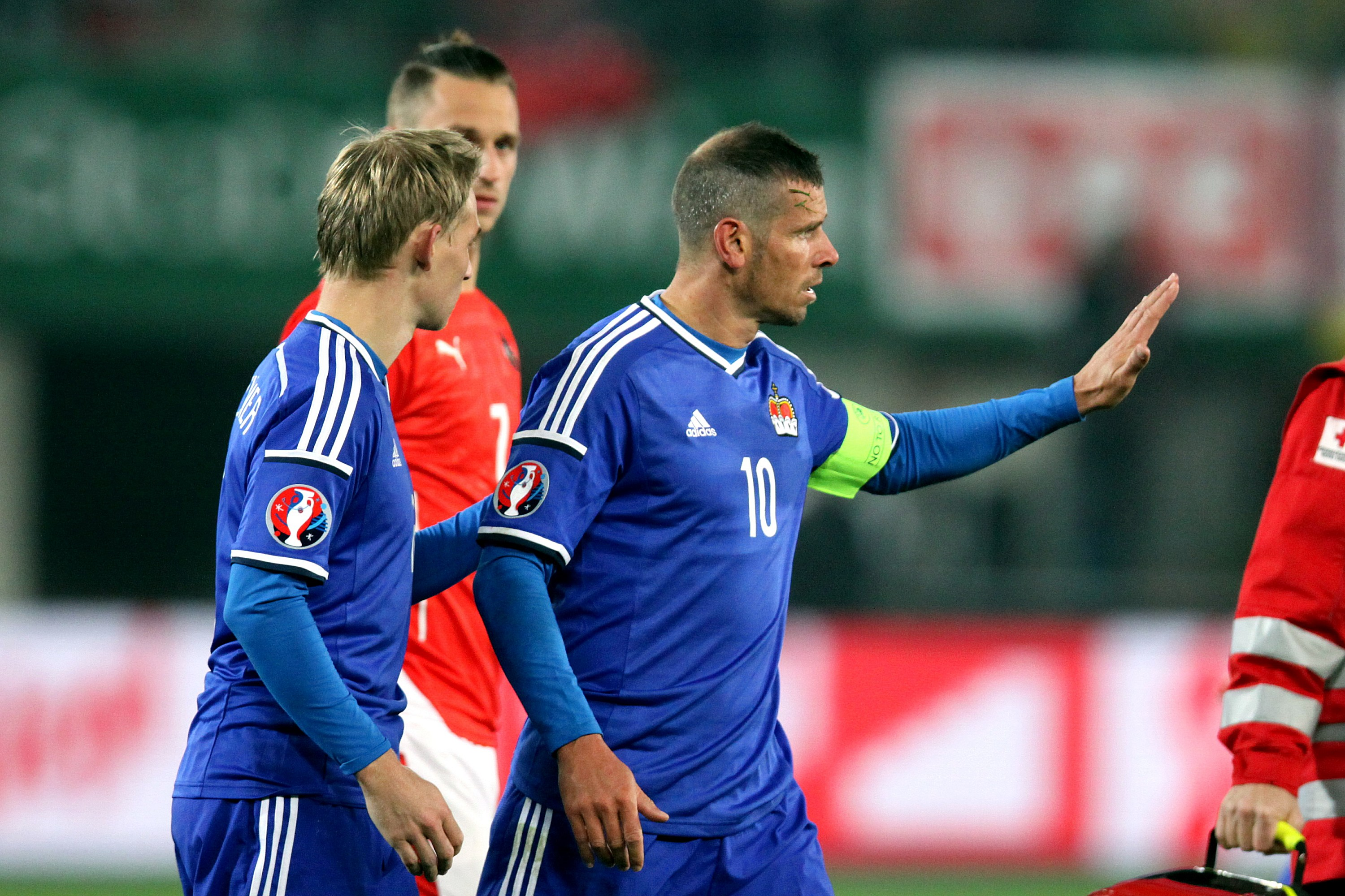 UEFA Euro 2016 qualifying, Group G – Austria (red shirts) vs. Liechtenstein (blue shirts) 3–0 (1–0) on 2015-10-12 in Ernst-Happel-Stadion, Vienna – The photo shows Martin Rechsteiner (left), Marko Arnautović (behind) and Mario Frick (right).